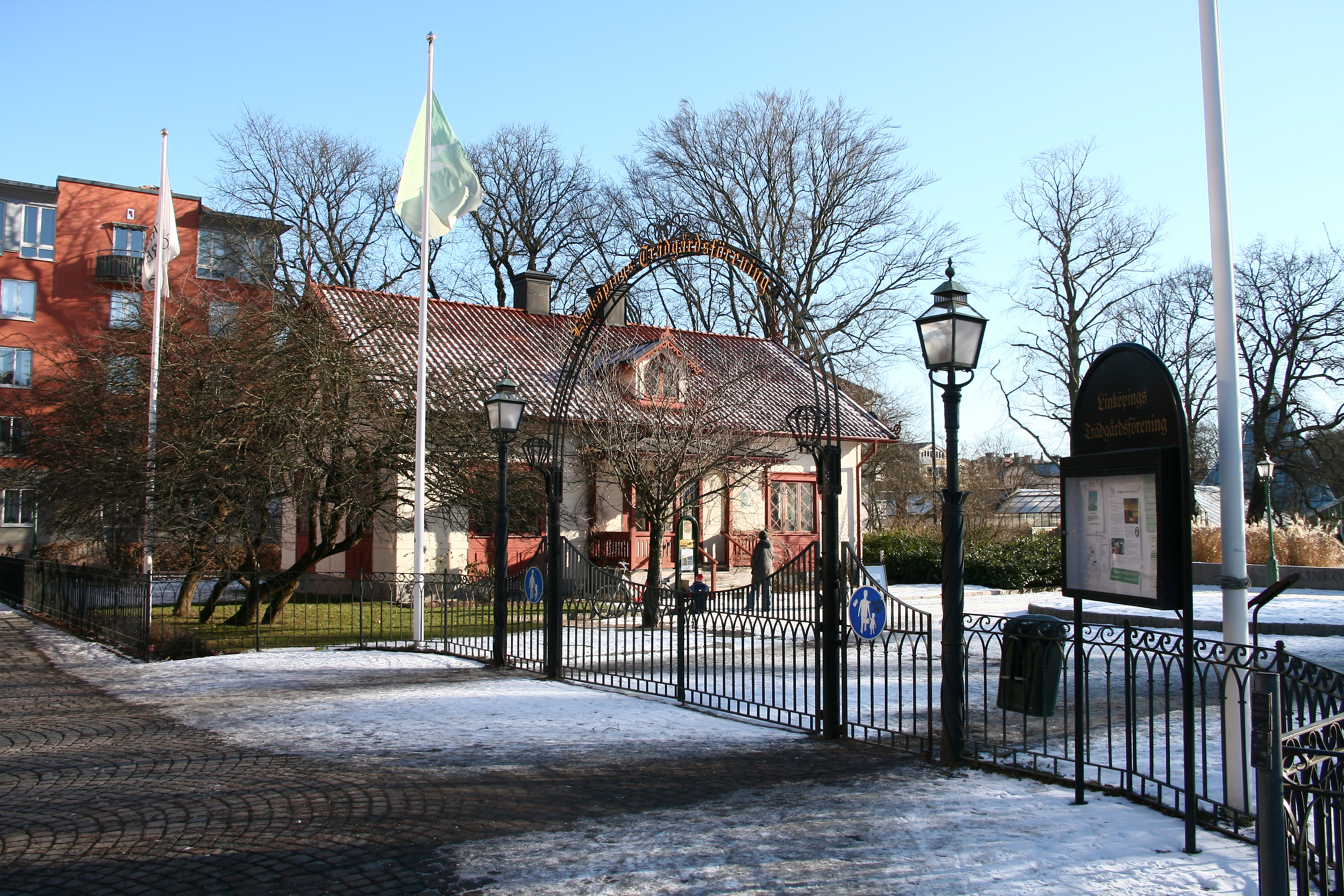 Trädgårdsföreningen, park in central Linköping, northern entrance, in the winter.